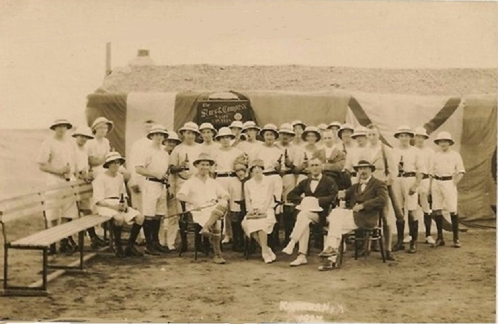 British and other European personnel being photographed next to the NAAFI canteen of Kamaran Island (Red Sea), in 1927. After it was evacuated by the Turks in 1915, Kamaran was to be administered by the British as a dependency of Aden. From the second half of the 19th century, Kamaran served as a quarantine station for Muslim pilgrims on their way to Mecca from India and other areas of the Indian Ocean. The island was never formally annexed by Great Britain.